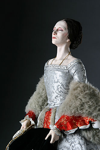 Portrait Sculpture of Anne Boleyn by artist George S. Stuart